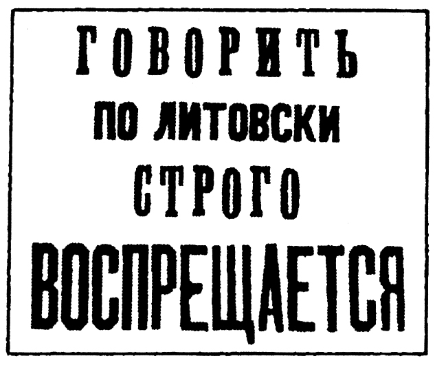 Говорить по литовски строго воспрещаеся. Speaking Lithuanian is strictly forbidden. These signs indicate the linguistic oppression Lithuanians underwent during the 19th Century at the hands of the Russians, especially during the Lithuanian press ban Source: Zigmas Zinkevičius, The History of the Lithuanian Language, (Vilnius: Mokslo ir enciklopedijų leidybos institutas, 1998), 286.